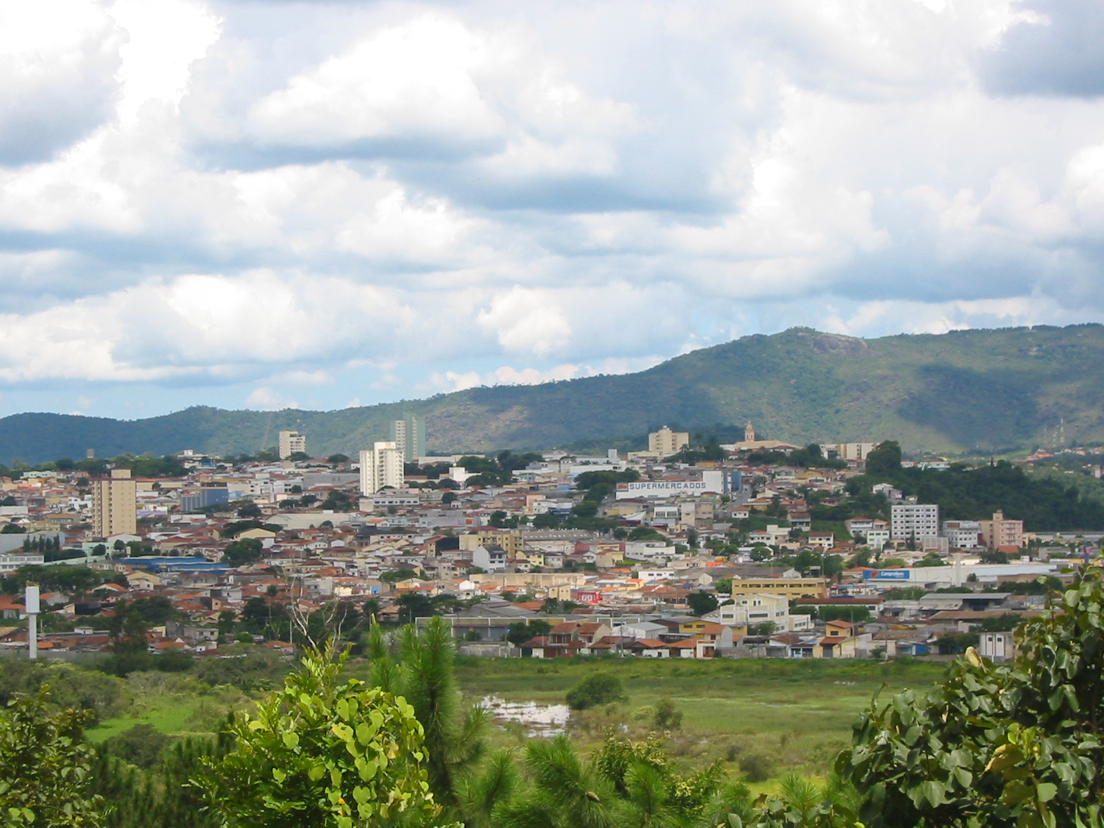 own work